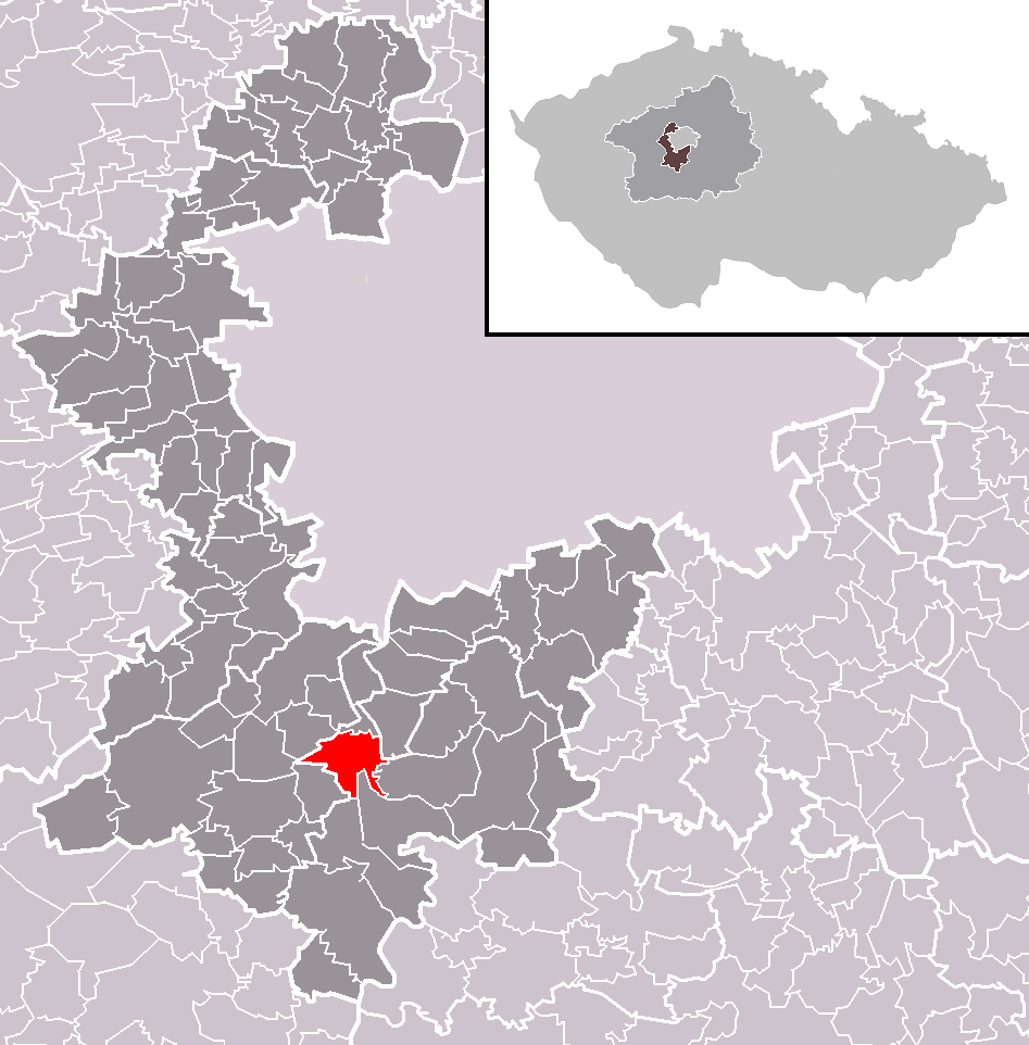 Location of Davle municipality within Prague-West District and administrative area of Černošice as a Municipality with Extended Competence.